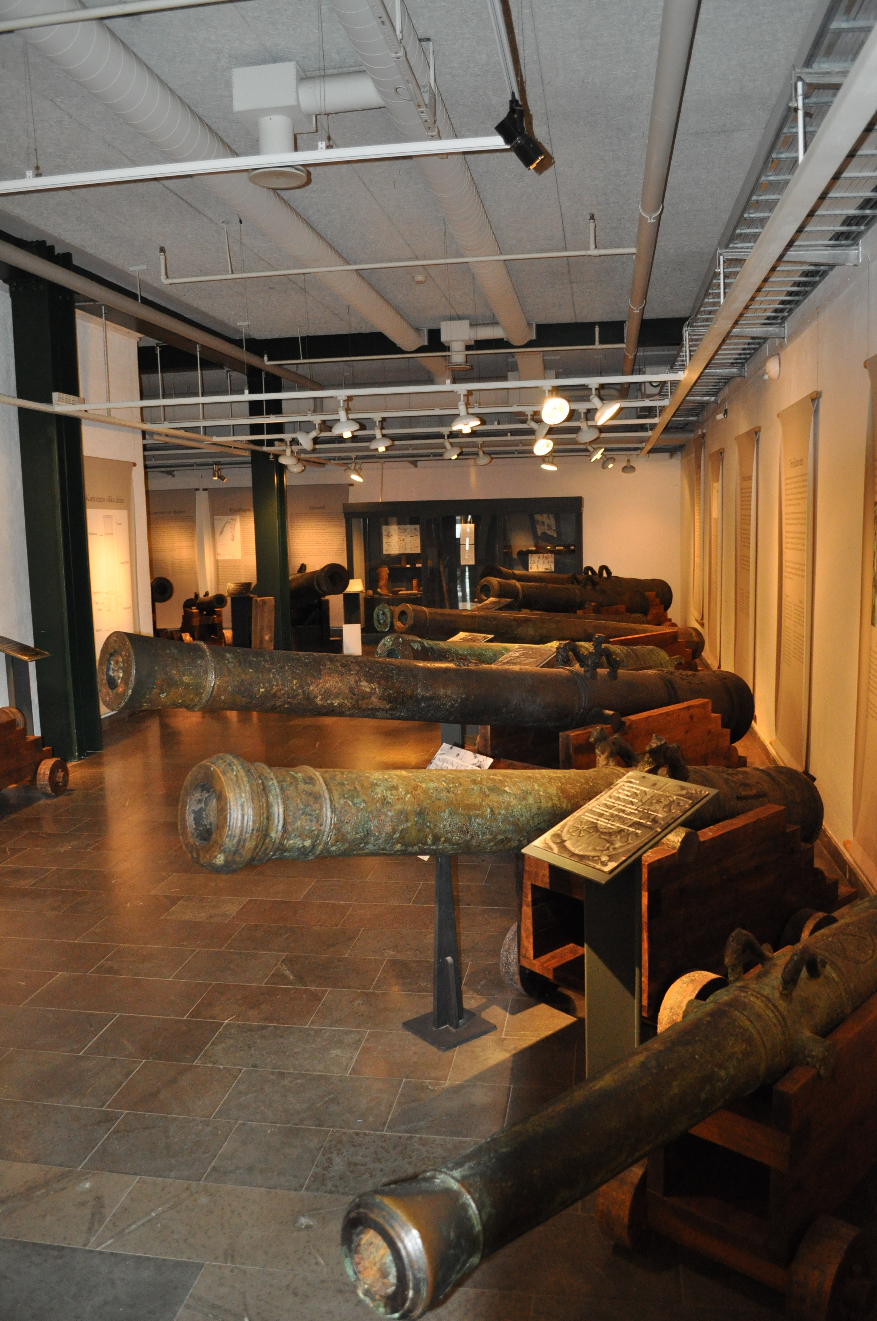 Cannons from the Swedish ship of the line Kronan at Kalmar museum.